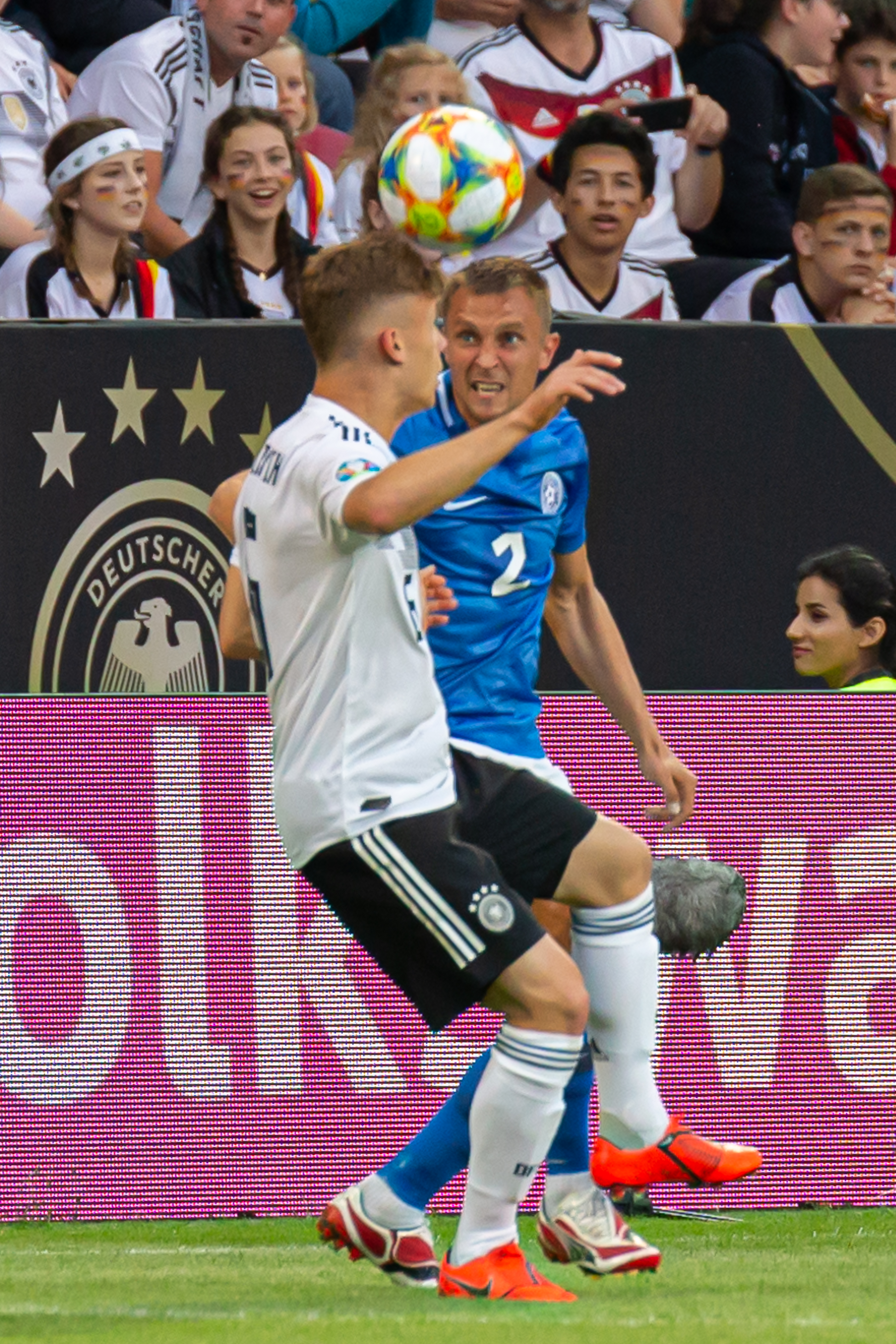 UEFA Euro 2020 qualifier Germany-Estonia